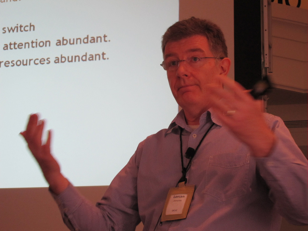 Lorcan Dempsey, (OCLC), Chicago, 2010